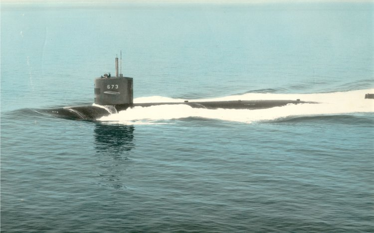 Official U.S. Navy photo issued to members of the crew of USS Flying Fish SSN 673 in 1972